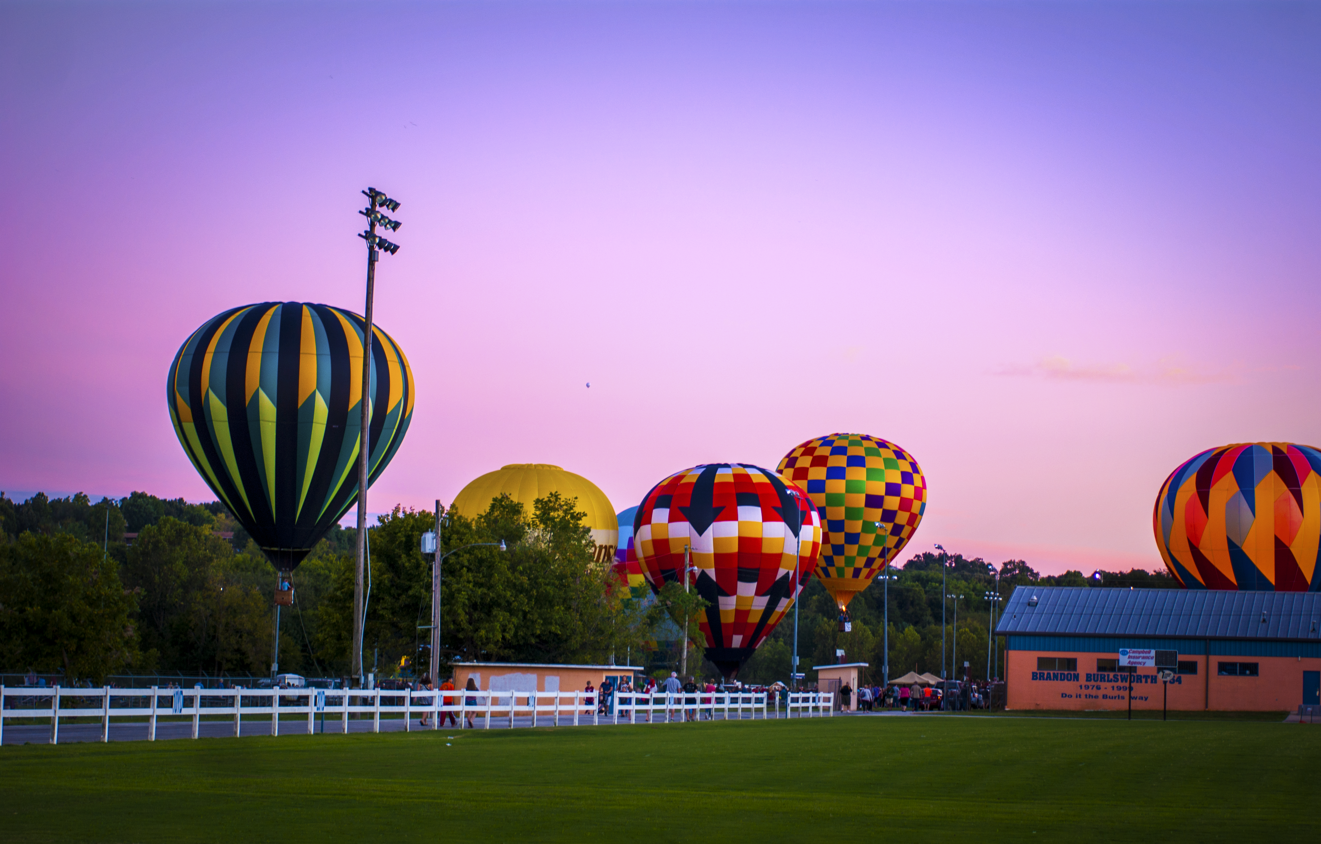 Annual event in Harrison, Arkansas. Several hot air balloons from all over the country come for the 2 day event.